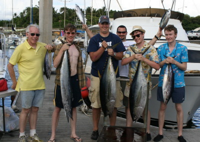 Thad catches a 50 lbs. yellow fin tuna of the coast of Hawaii.